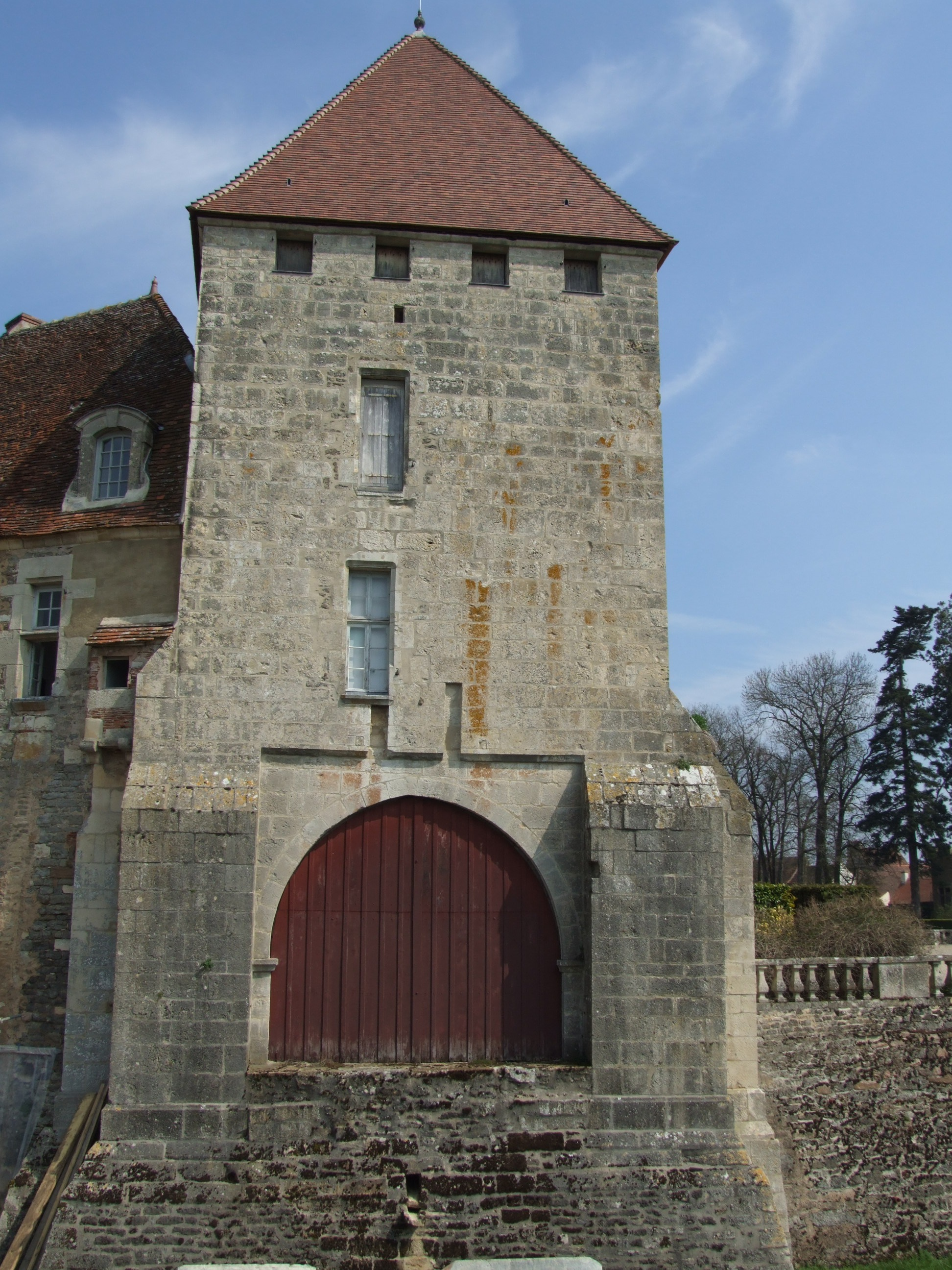 Epoisses castle, Burgundy, FRANCE